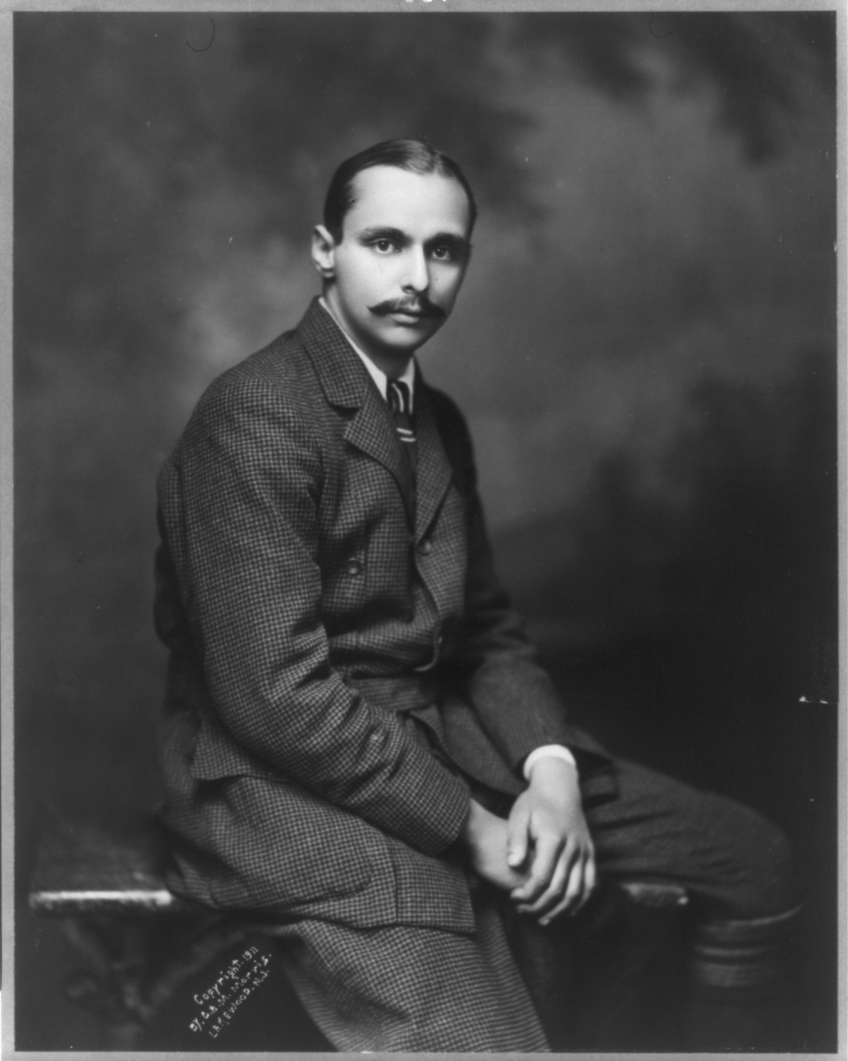 Jay Gould II (1888-1935) circa 1911